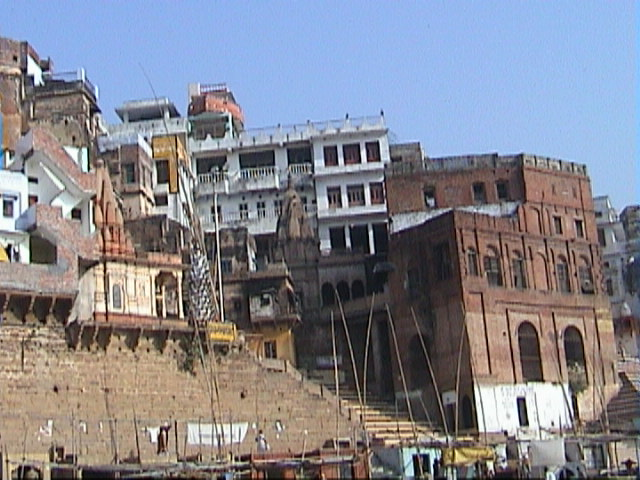 See Varanasi Development Cooperation Handbook/Stories/Responsible Development - Varanasi The Varanasi Heritage Dossier Kautilya Society Play media Vrinda Dar - How we got involved in heritage protection of Varanasi